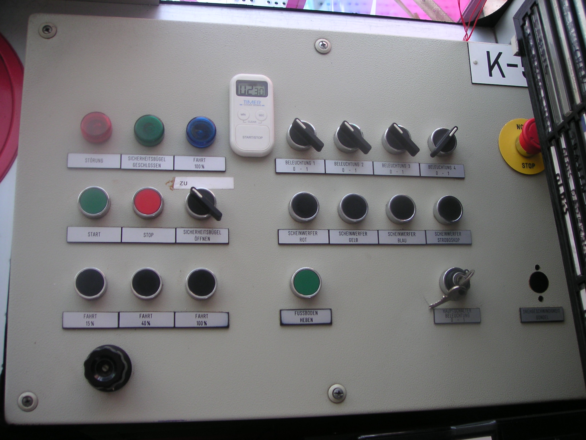 This is the Control Panel of an KMG Afterburner. It has been modified by the operator, he put the gondola speed poti to another position.